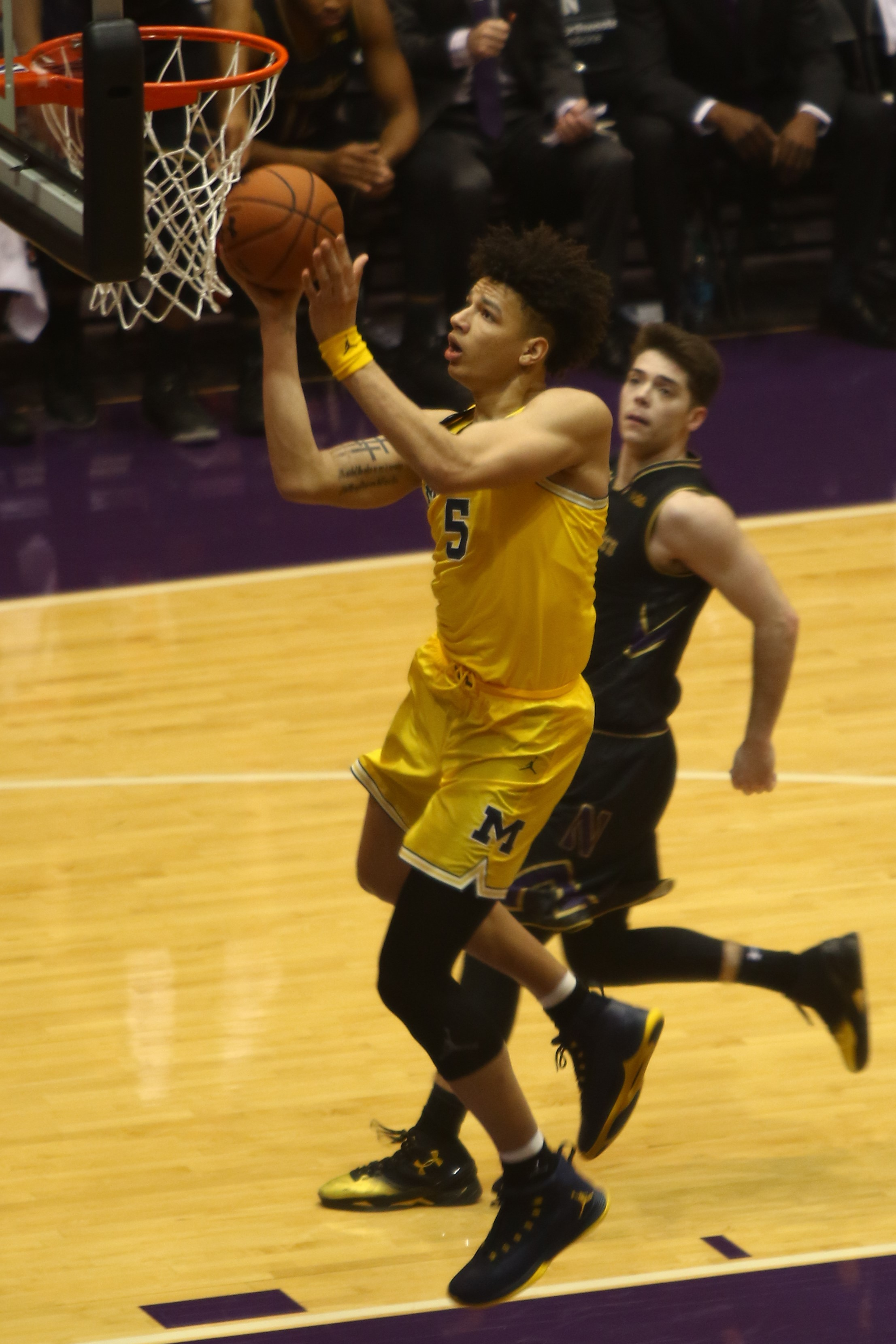 D. J. Wilson playing for the w:2016–17 Michigan Wolverines men's basketball team